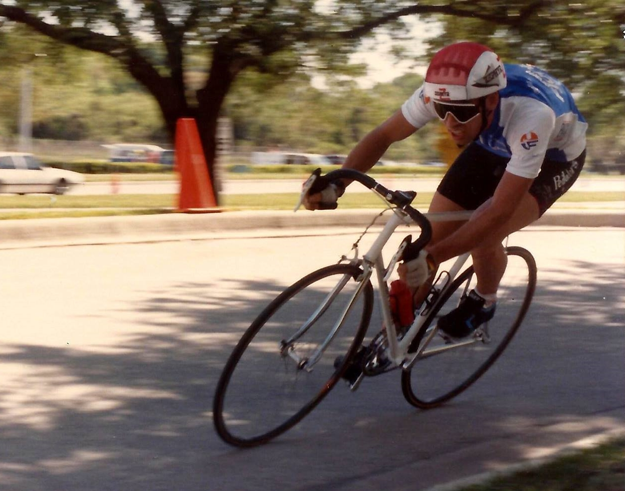 Notable Team Florida Alumni John Lieswyn in 1988